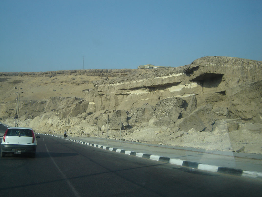 The road of El Mokattam, a historic hill and district outside Cairo, Egypt.